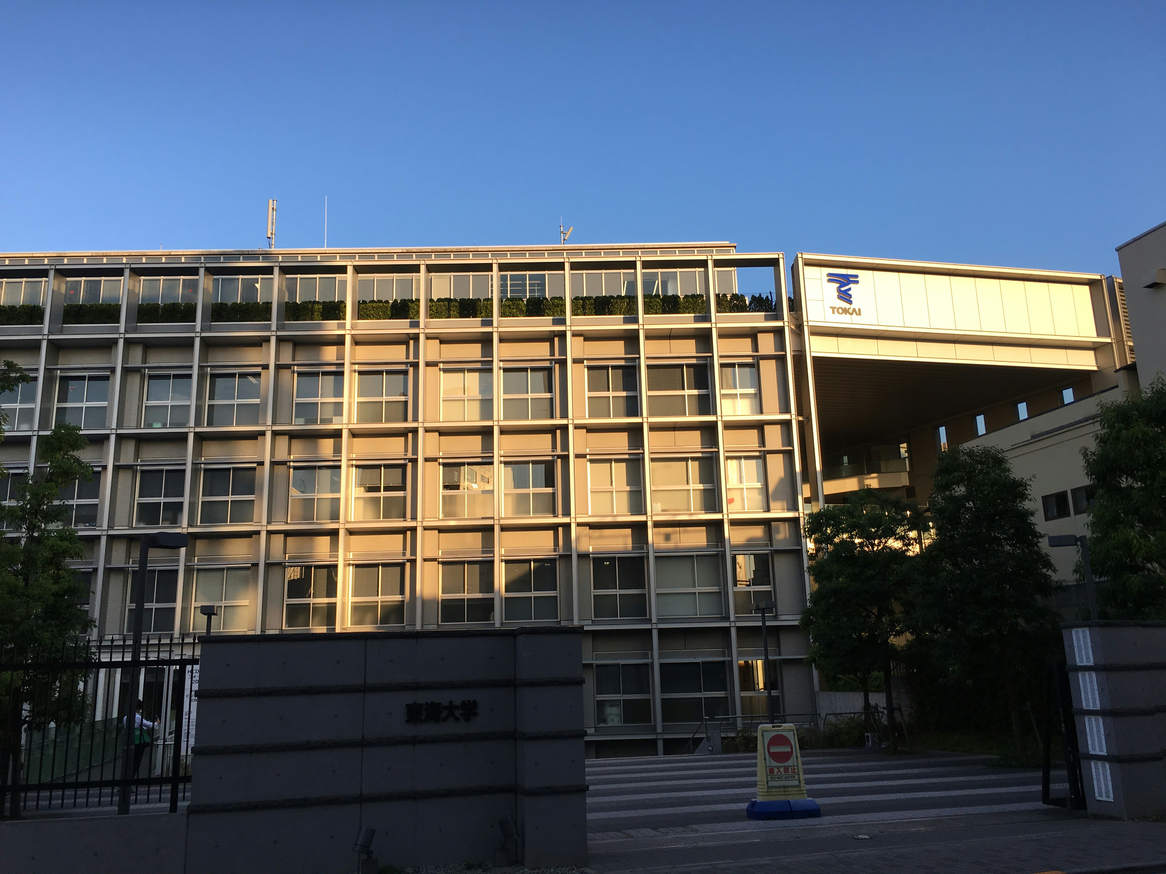 Tokai University, Takanawa Campus Building 1